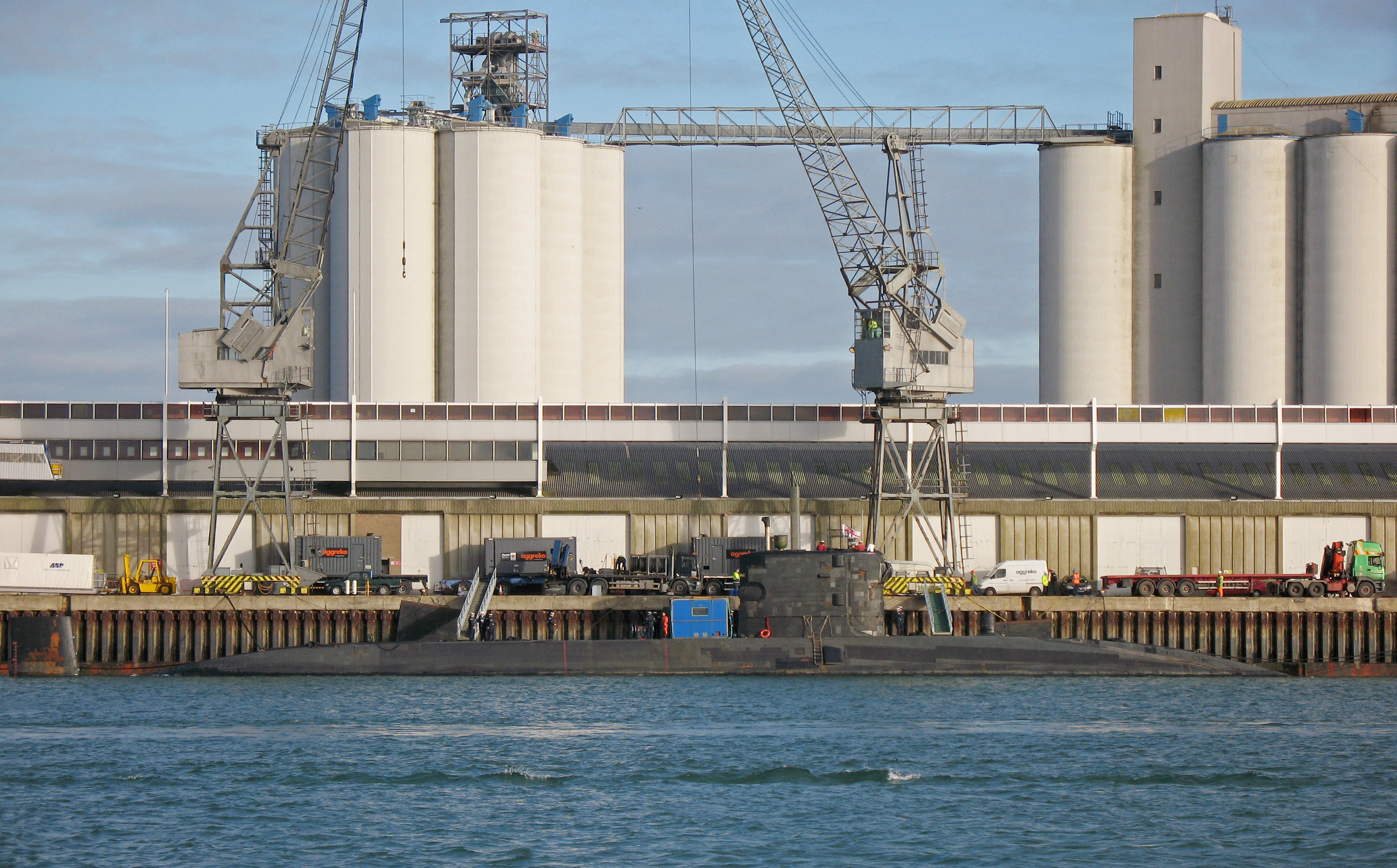 HMS Trafalgar a Trafalgar class nuclear hunter-killer submarine berthed at the nuclear Z Berth (38 Berth) Southampton Docks, UK, on 10 December 2008. The blue box parked on the deck is a generator set supplied by Aggreko plc to provide electrical power while the nuclear reactor is shut down. See Aggreko